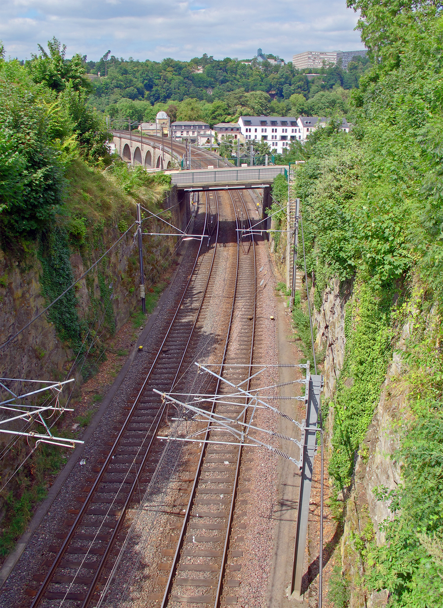 Railway line 1 (North line) in Luxembourg before the bridge under the rue de Trêves and following the Viaduc de Clausen